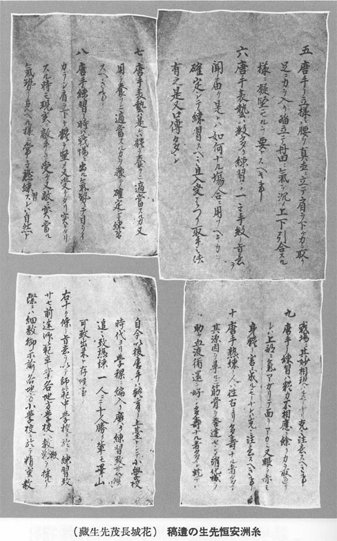 糸洲十訓(Ten Precepts of Karate)